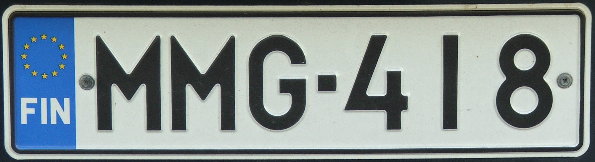 Vehicle licence plate from Finland.